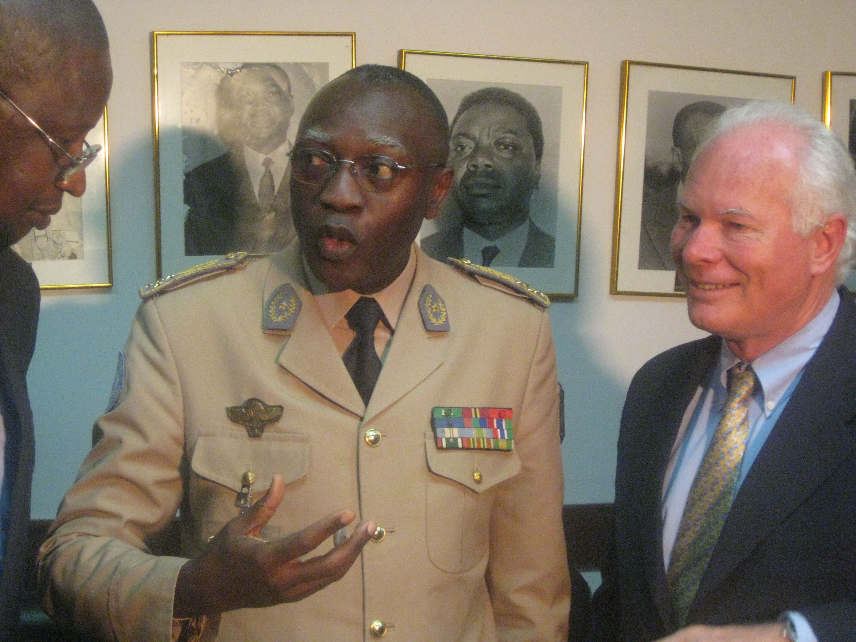 General Babacar Gaye (center) and Ross Mountain (right)